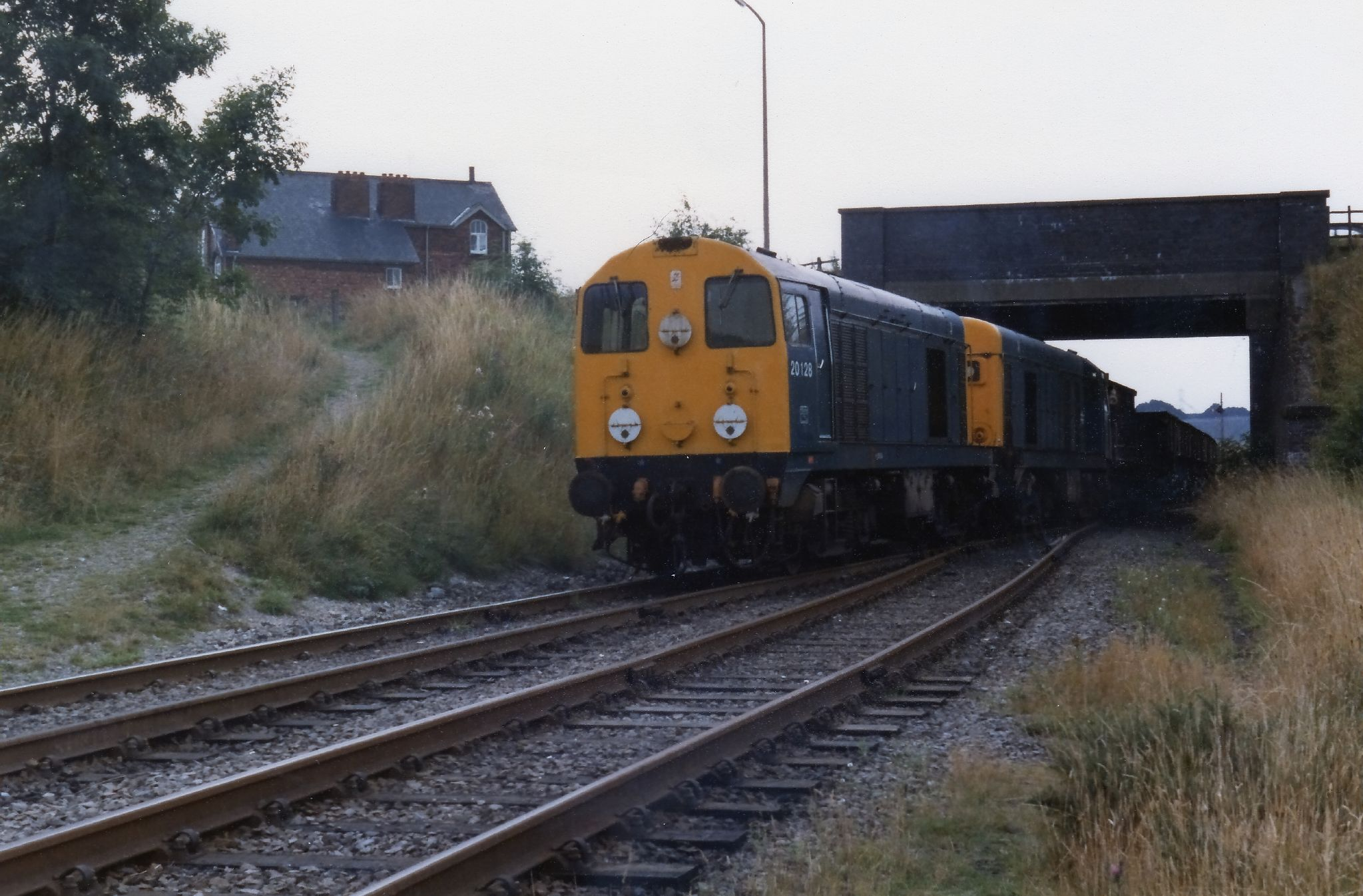 This is the Ex Great Central at Arkwright.The locos have just passed under the A632 bridge at Arkwright.The bridge is still in situ but Arkwright town was demolished and rebuilt when carbon monoxide gas began leaking from underground workings into the rows of houses.